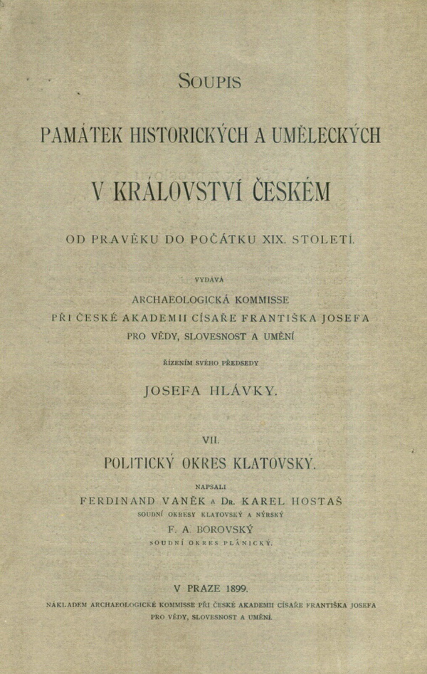 typical book cover